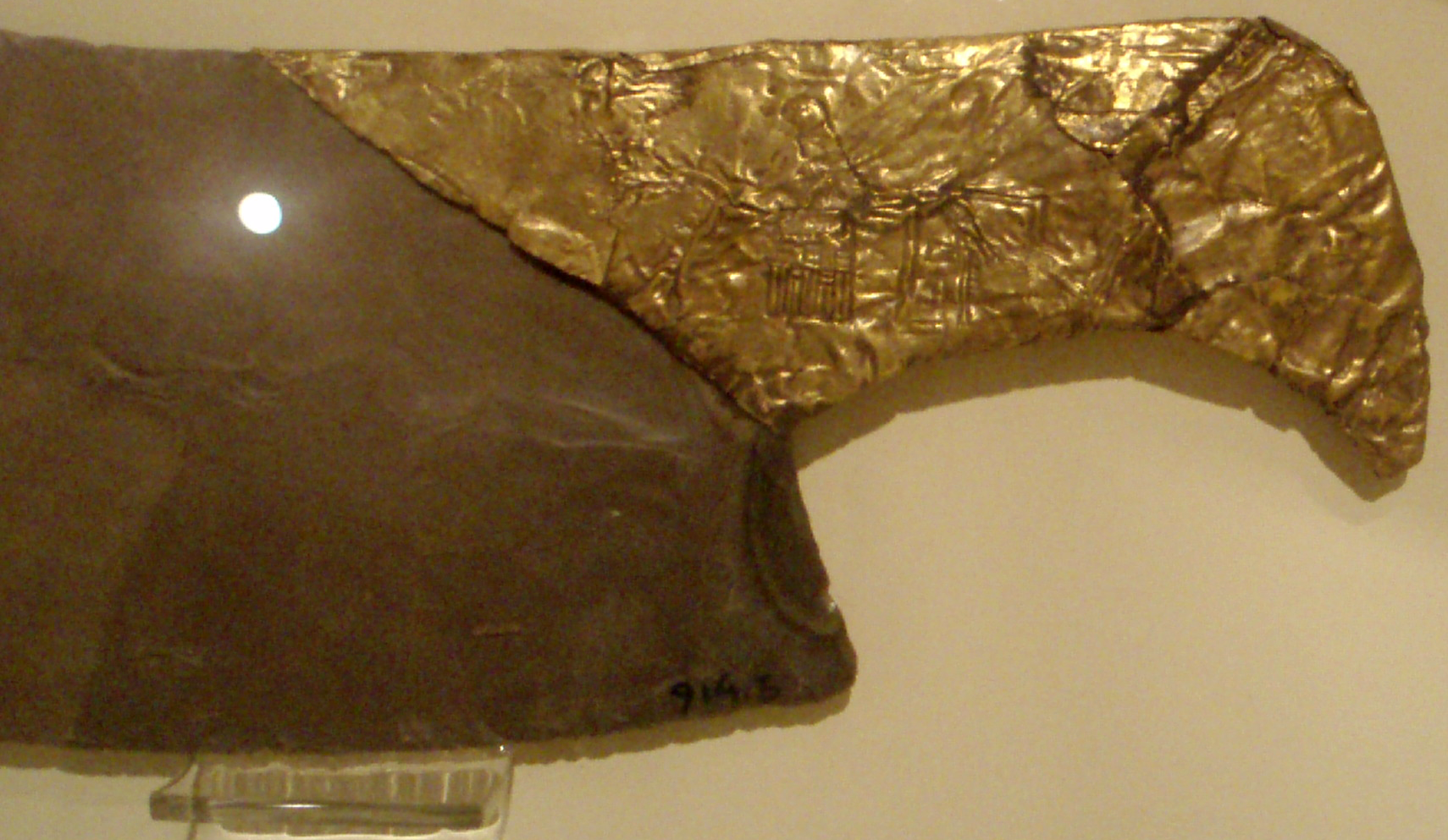 Close-up of the gold-foil at the hilt of a flint butcher knife, highlighting the serehk and name of the pharaoh Djer.